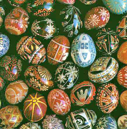 Ukrainian Easter eggs